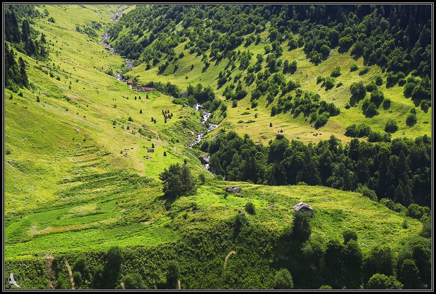 Shovi Racha region Georgia